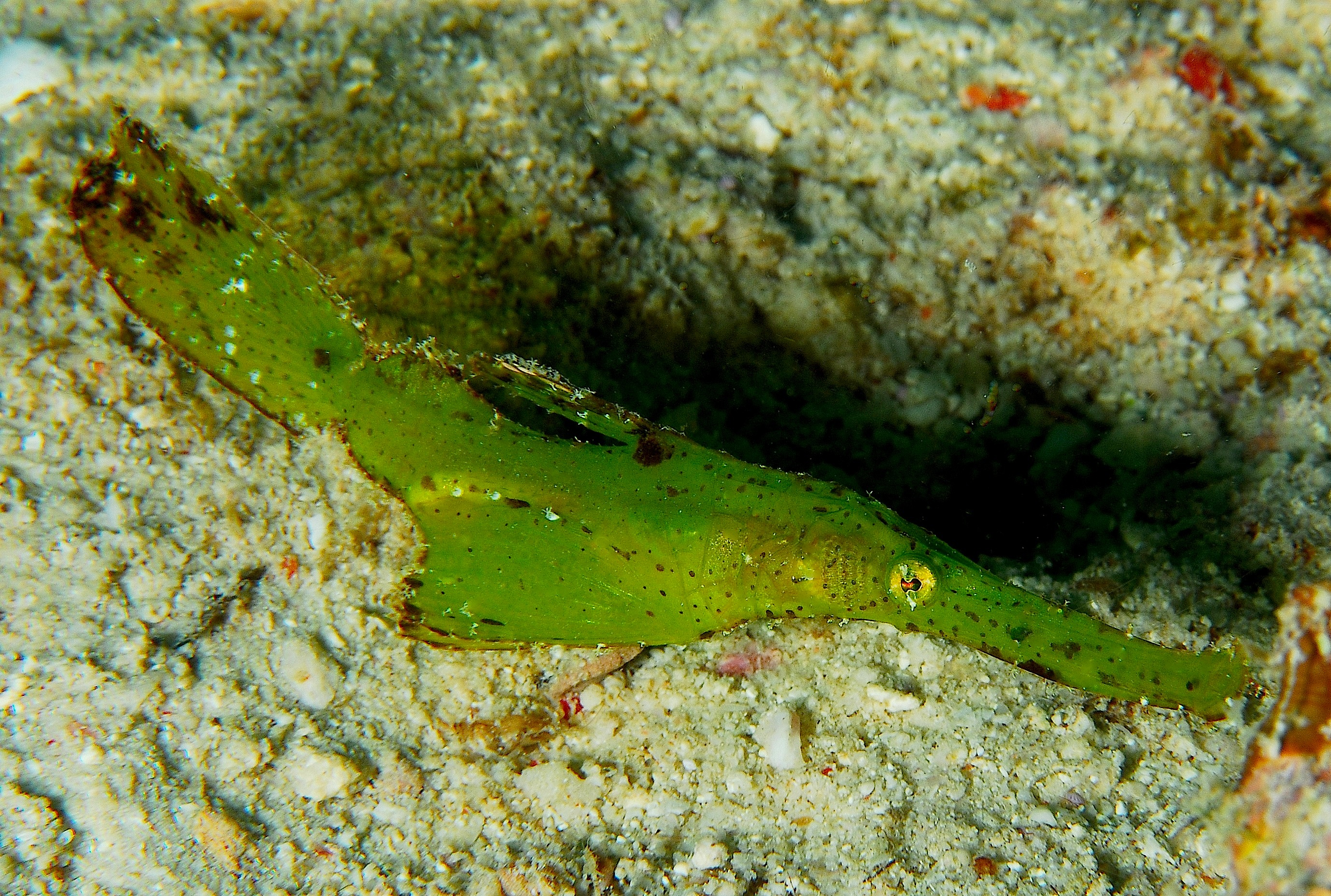 Ghostpipefish (Solenostomus cyanopterus), a most fascinating and cryptic species which perfectly mimics a drifting piece of seagrass.Swiming head down.